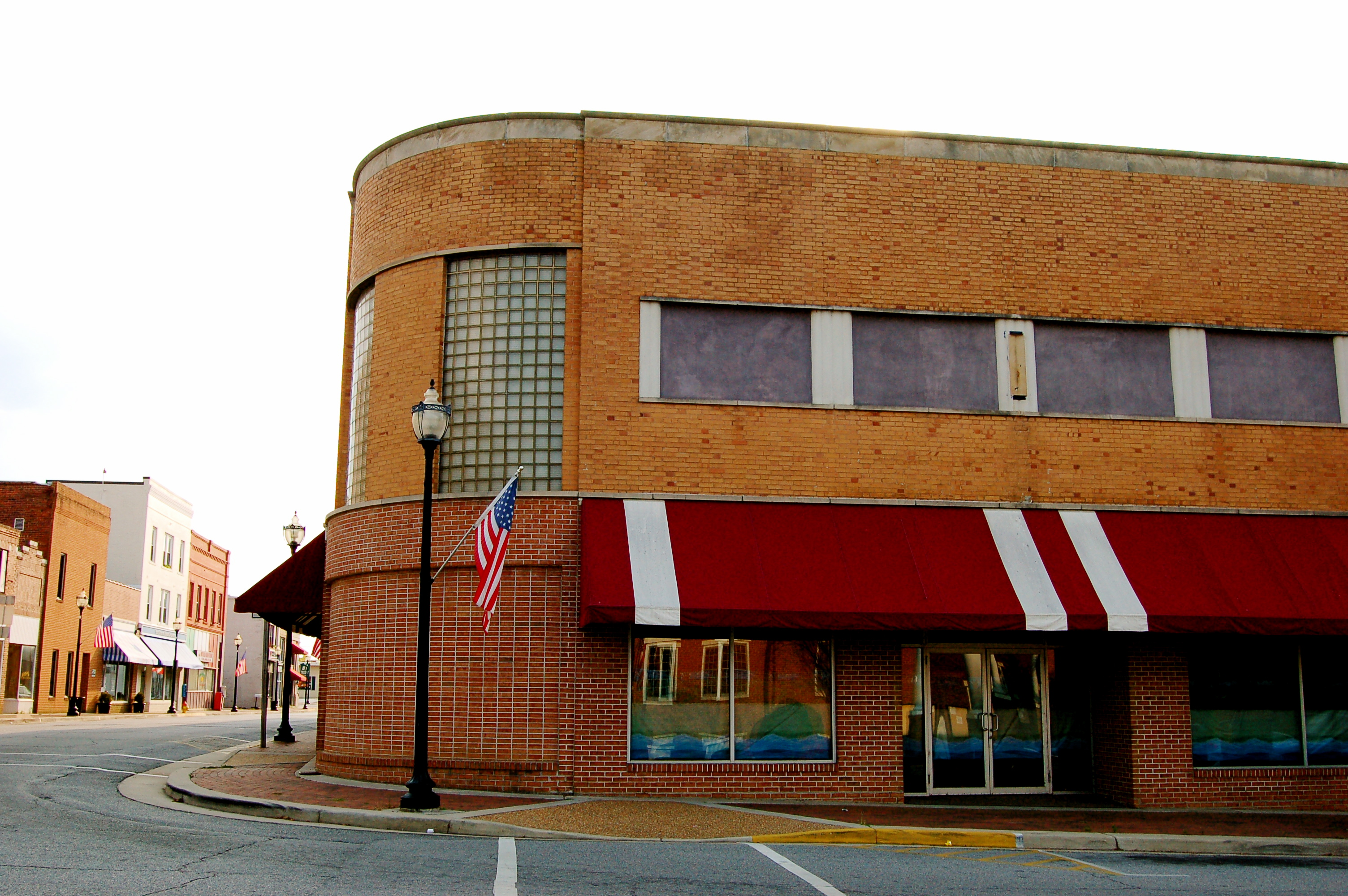 Corner in downtown Lawrenceville, Virginia